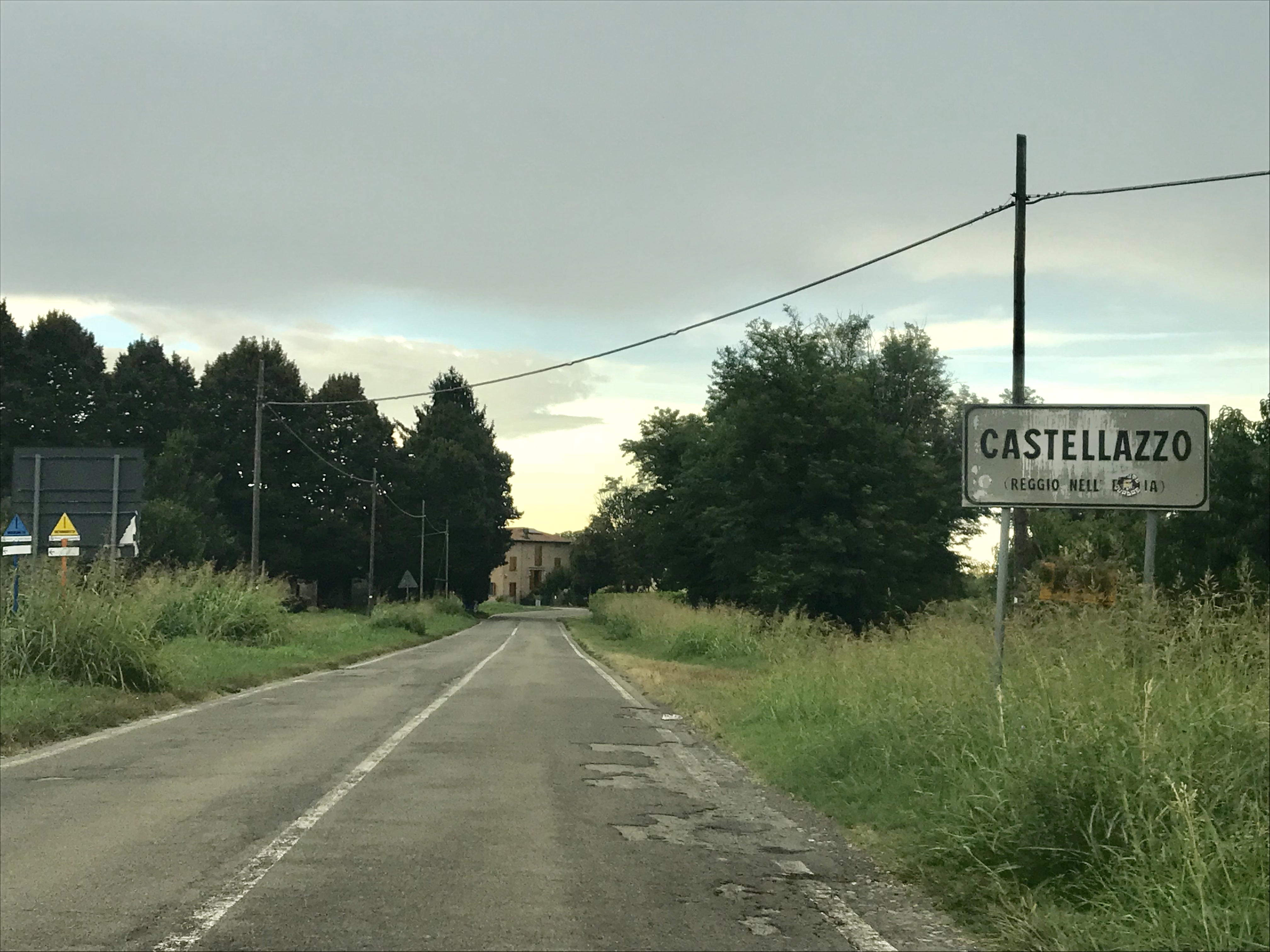 Castellazzo landscape